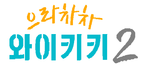 Welcome to Waikiki 2 Drama logo